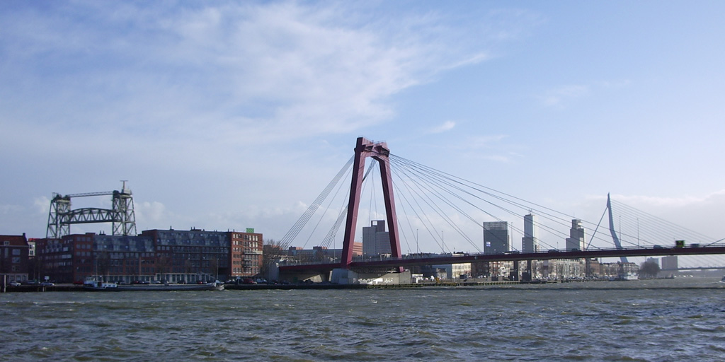 Three bridges in Rotterdam: from left to right De Hef, the Willems bridge and the Erasmus bridge.